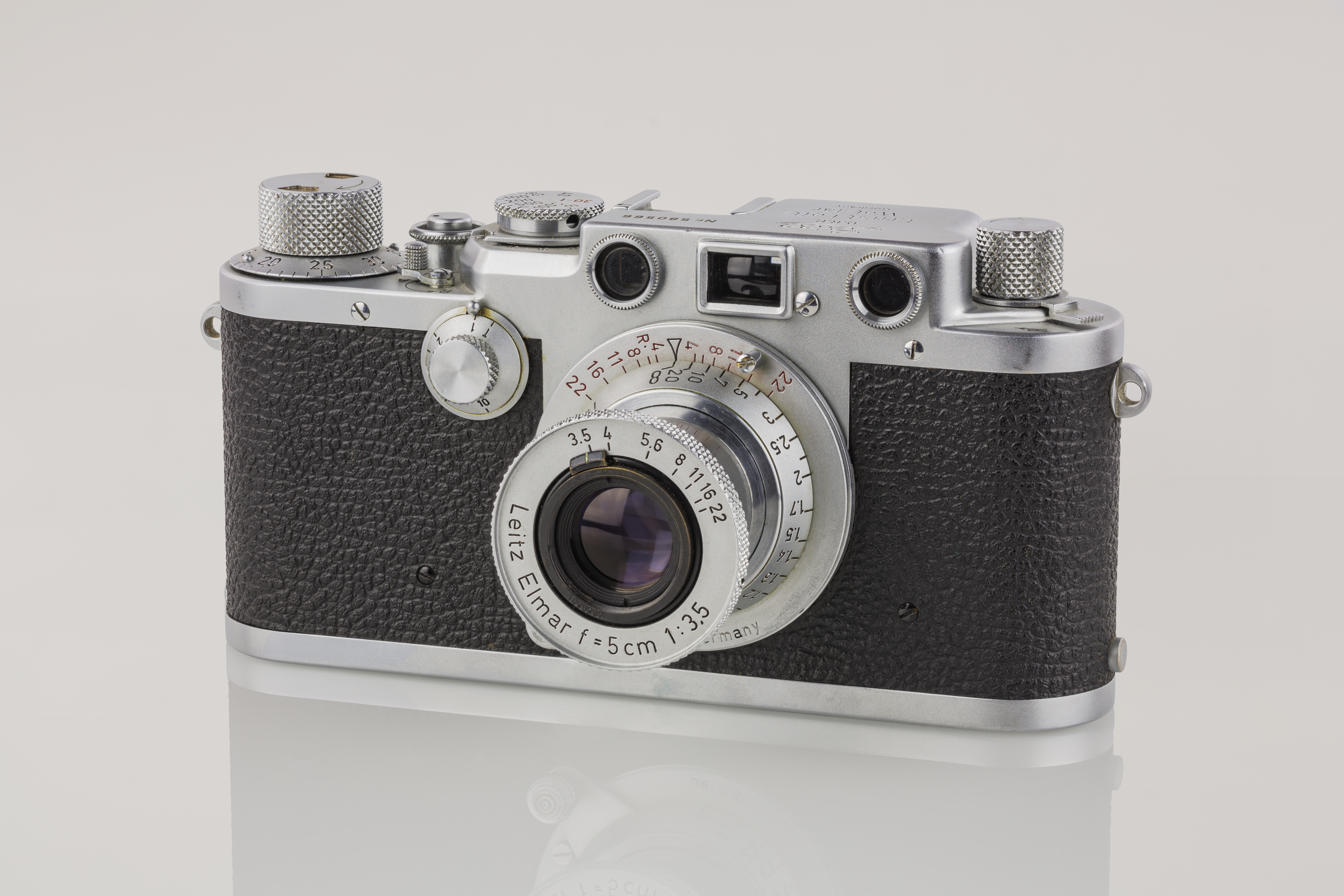 Leica IIIf with flash synchronisation - Sn. 580566 - M39, 1951-52 - Mount: M39